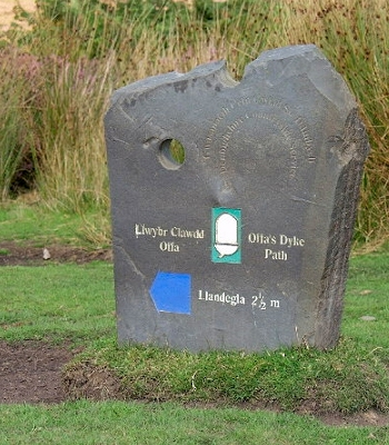 Original photograph taken by John Haynes, September 2005 A signpost on the Offa's Dyke Path near Llandegla, Denbighshire